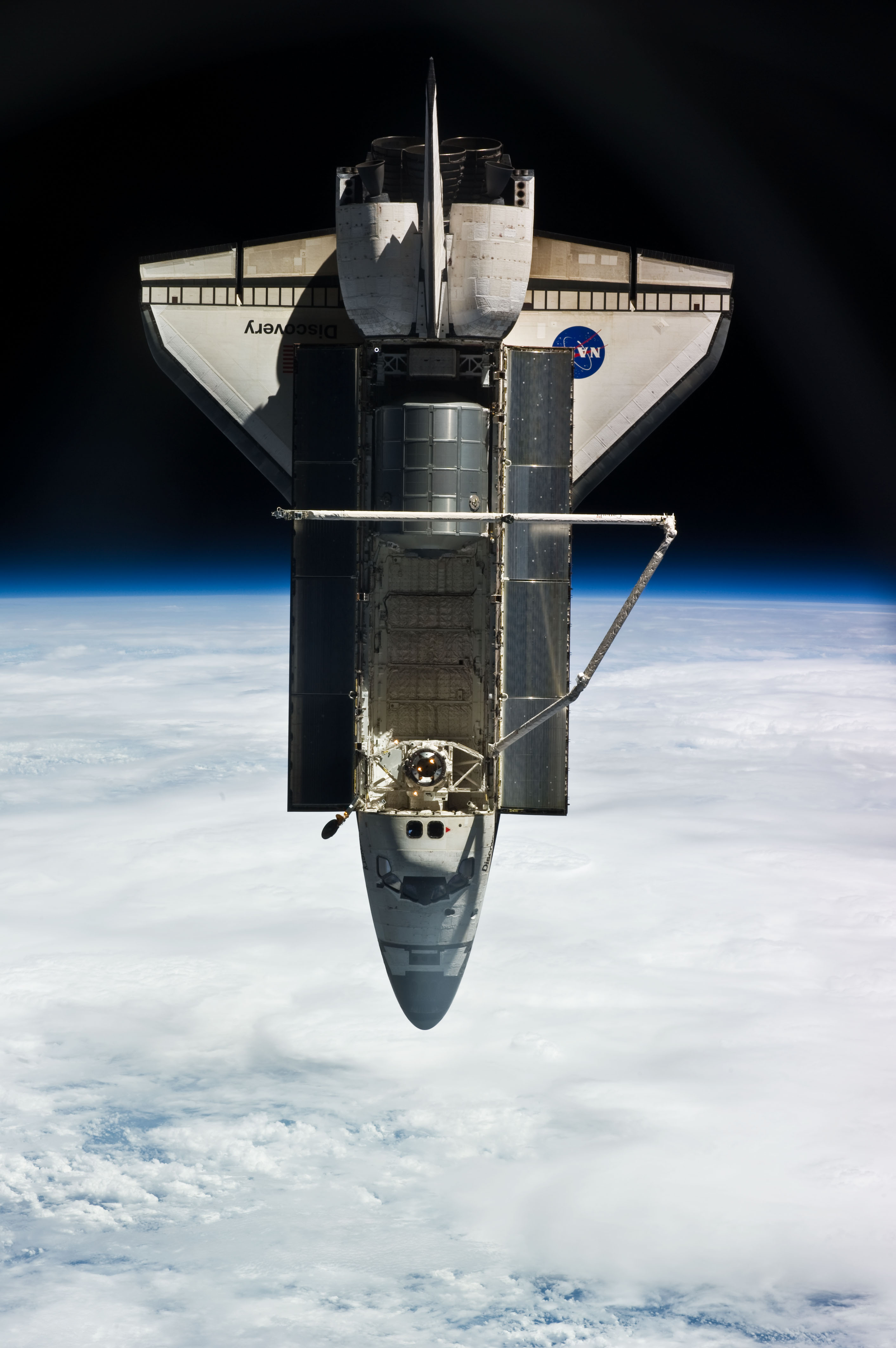 Space shuttle Discovery is featured in this image photographed by an Expedition 23 crew member on the International Space Station soon after the shuttle and station began their post-undocking relative separation. Undocking of the two spacecraft occurred at 7:52 a.m. (CDT) on April 17, 2010, ending a stay of 10 days, 5 hours and 8 minutes. The visit included three spacewalks and delivery of more than seven tons of equipment and supplies. Earth's horizon and the blackness of space provide the backdrop for the scene.